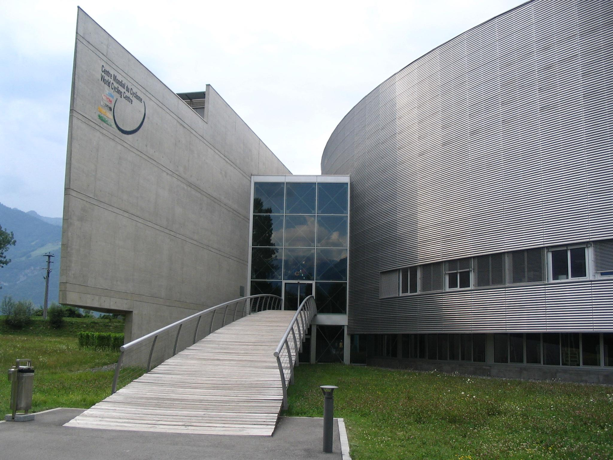 World Cycling Center (UCI) - Aigle / Switzerland.